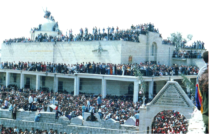 Shaanin Procession (Way of the Cross) in Bakhdida, Iraq